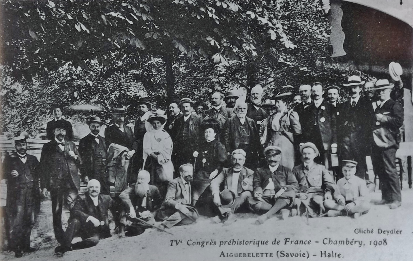 Photograph of prehistorians and his wives gathered in Aiguebelette-le-Lac during the IVe prehistorian Congress of France which took place in Chambéry (Savoie, France) in 1908.